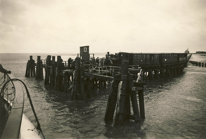 Ostanleger Wangerooge